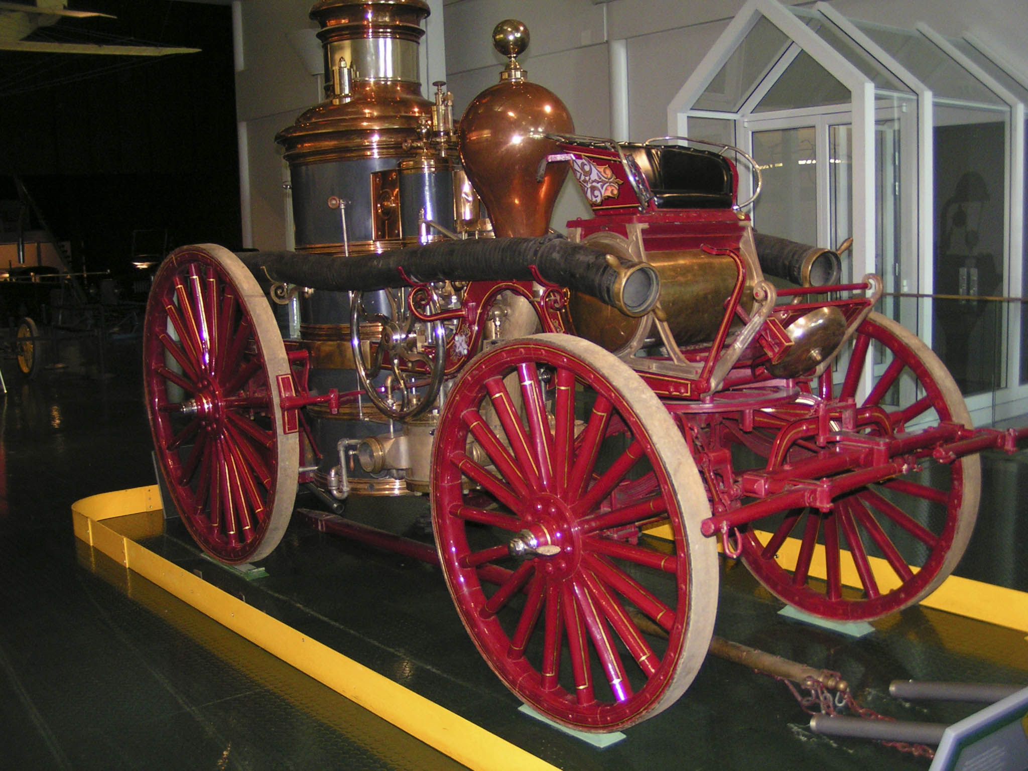 1885 Amoskeag Steam Fire Engine, built at the Manchester Locomotive Works of New Hampshire. Pulled by horses the steam engine pumped the water. On display at the Reynolds Alberta Museum in Wetaskiwin, Alberta Canada.